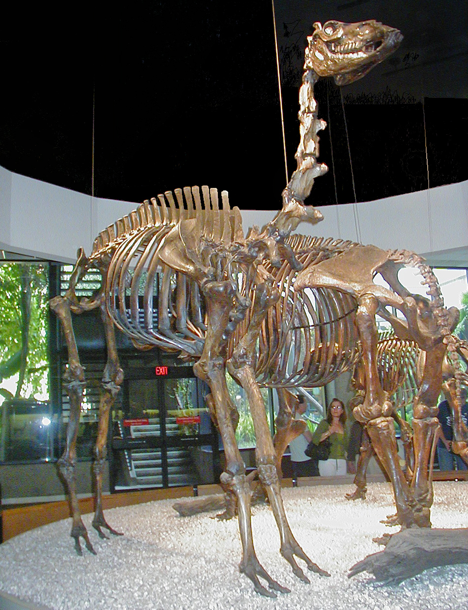 Skeleton of the extinct western camel (Camelops hesternus) in the foreground, in the George C. Page Museum at the La Brea Tar Pits, Los Angeles, California. Background spotlights have been removed with Photoshop. The western camel stood seven feet tall at the shoulder, similar in size to the living Asian Bactrian camel. An American mastodon (Mammut americanum) mother and child are behind the camel.